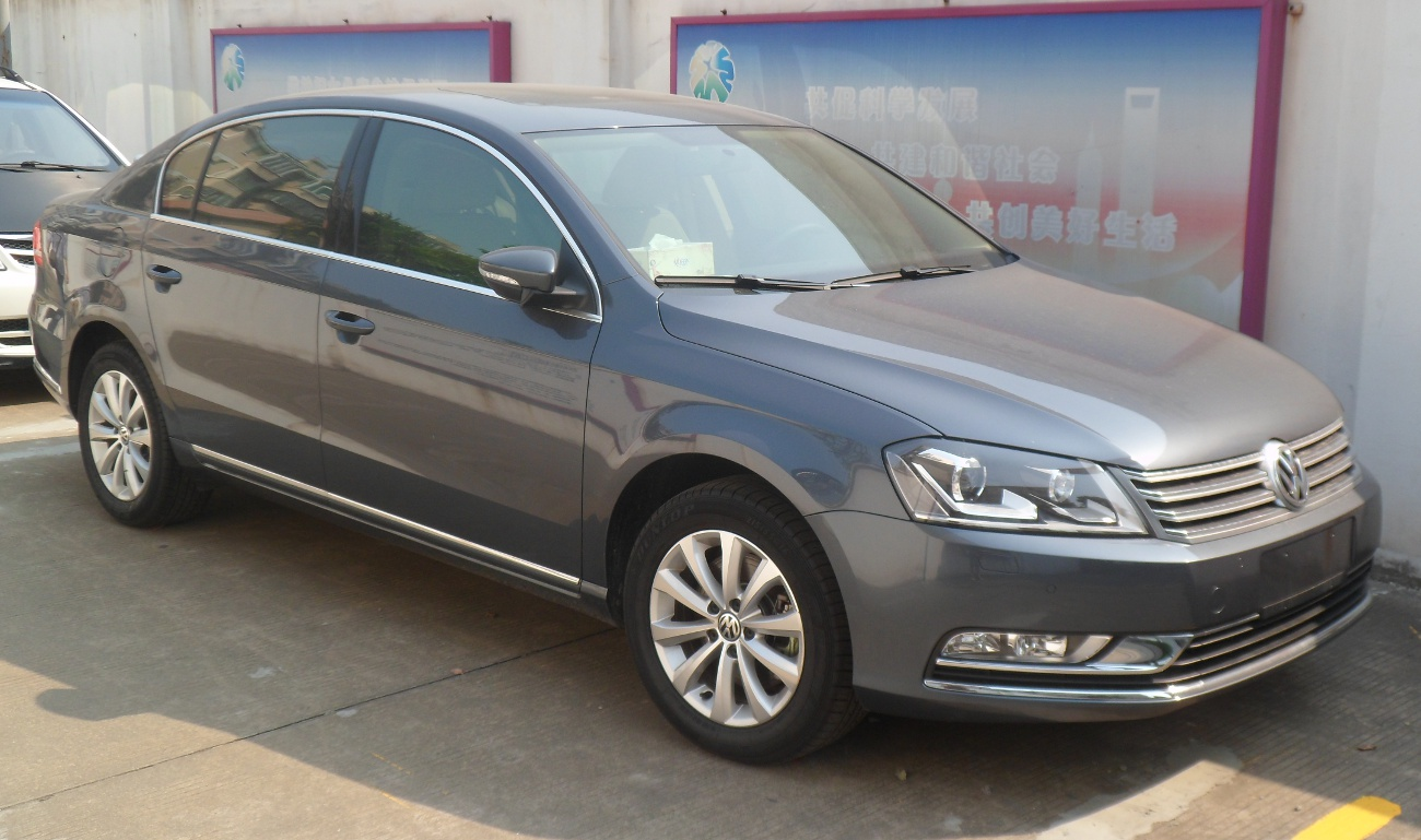 Volkswagen Magotan B7L photographed in Shanghai, China.